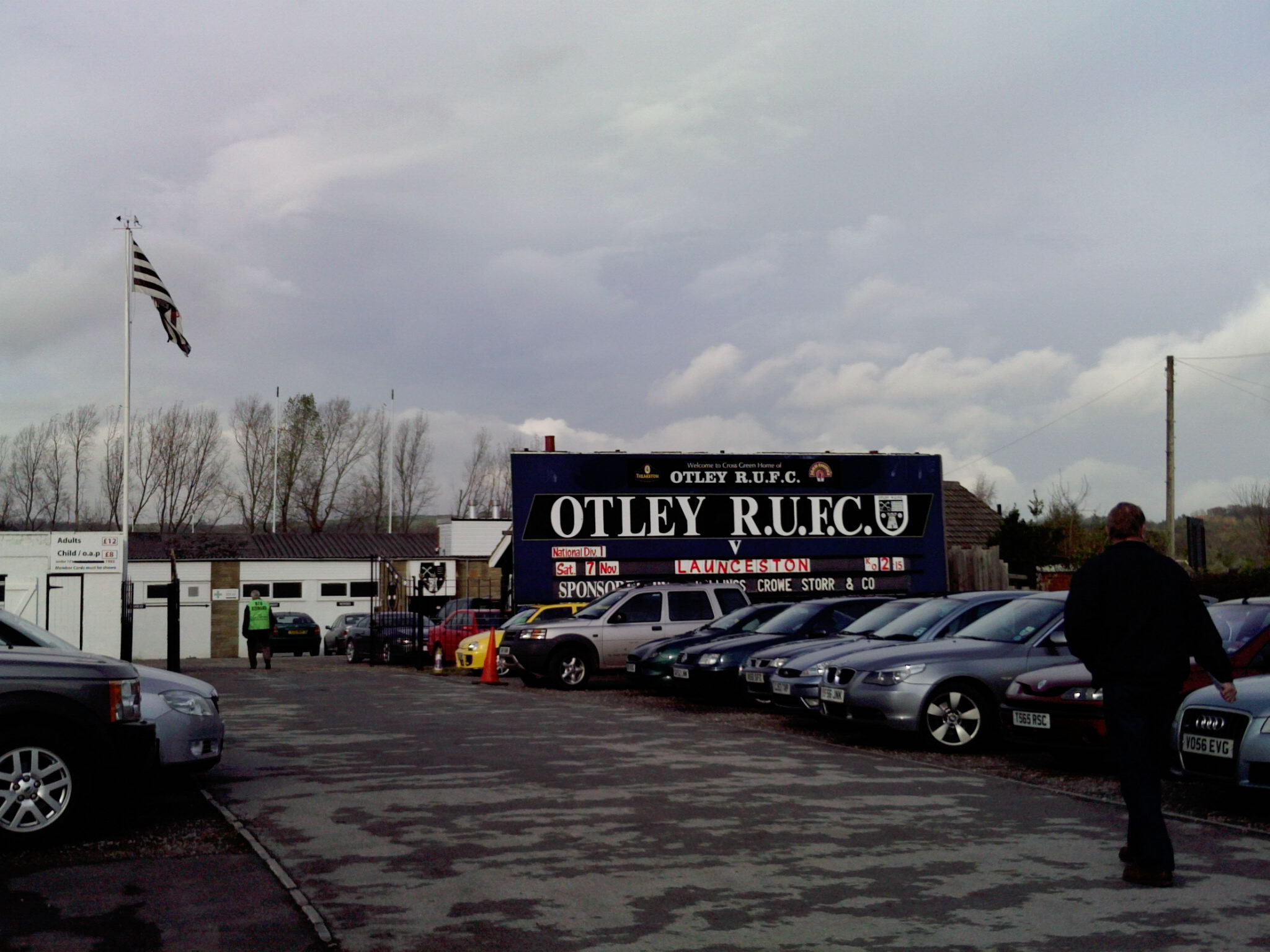 Cross Green rugby ground in Otley, West Yorkshire, home to Otley RUFC. Taken on a Saturday in November 2009.